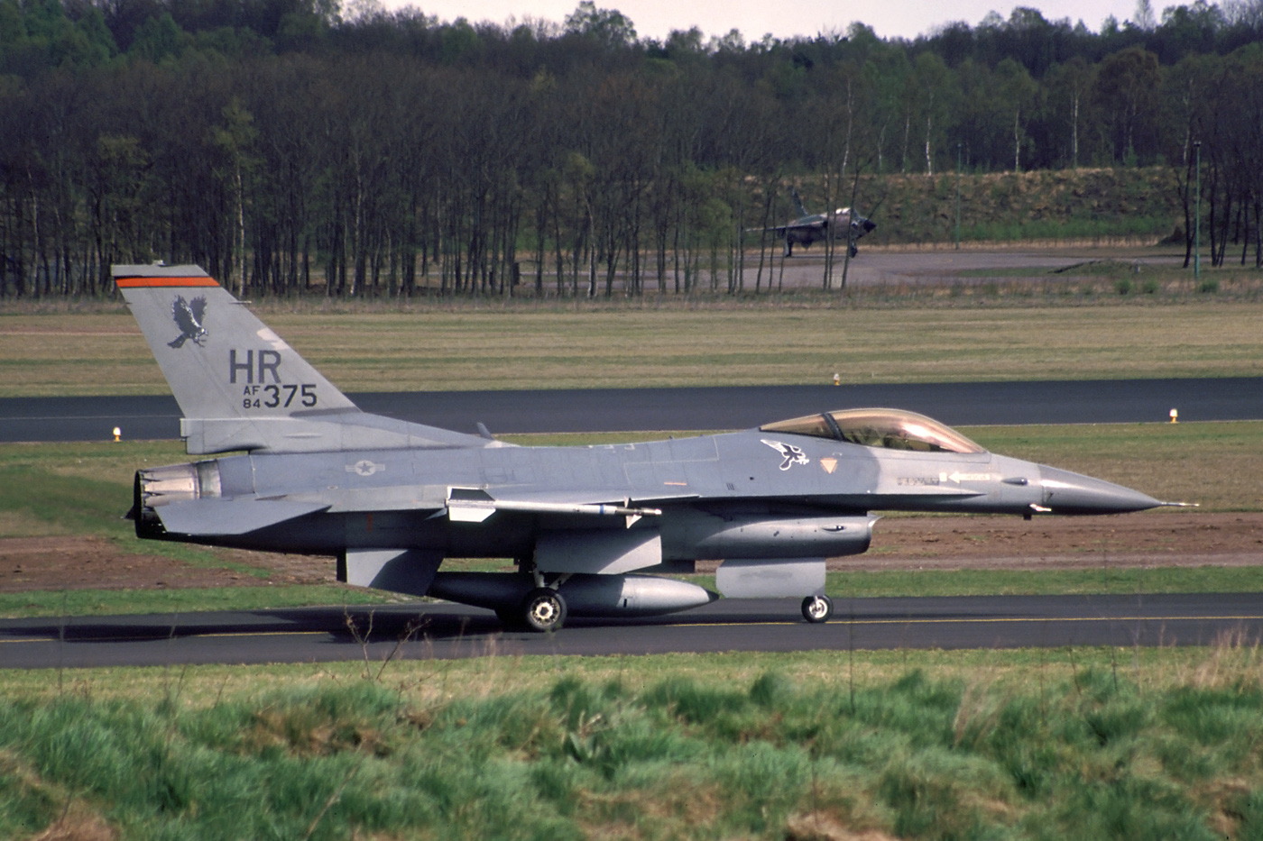 The F-105F in the background (62-4417, former Georgia ANG) was used for battle damage repair training here at Soesterberg. It is now on display in the museum of Hermeskeil (Germany). Did you notice the F-16? It was taxiing by when I took the photo. Four F-16Cs from 313th TFS (Hahn) visited Soesterberg on 5 April 1990. The 50th Tactical Fighter Wing and its squadrons were inactivated one year later. 84-1375 is at AMARC now.